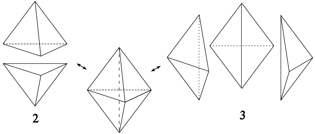 This picture shows a 2-3 Pachner move: a union of 2 tetrahedra gets decomposed into 3 tetrahedra.